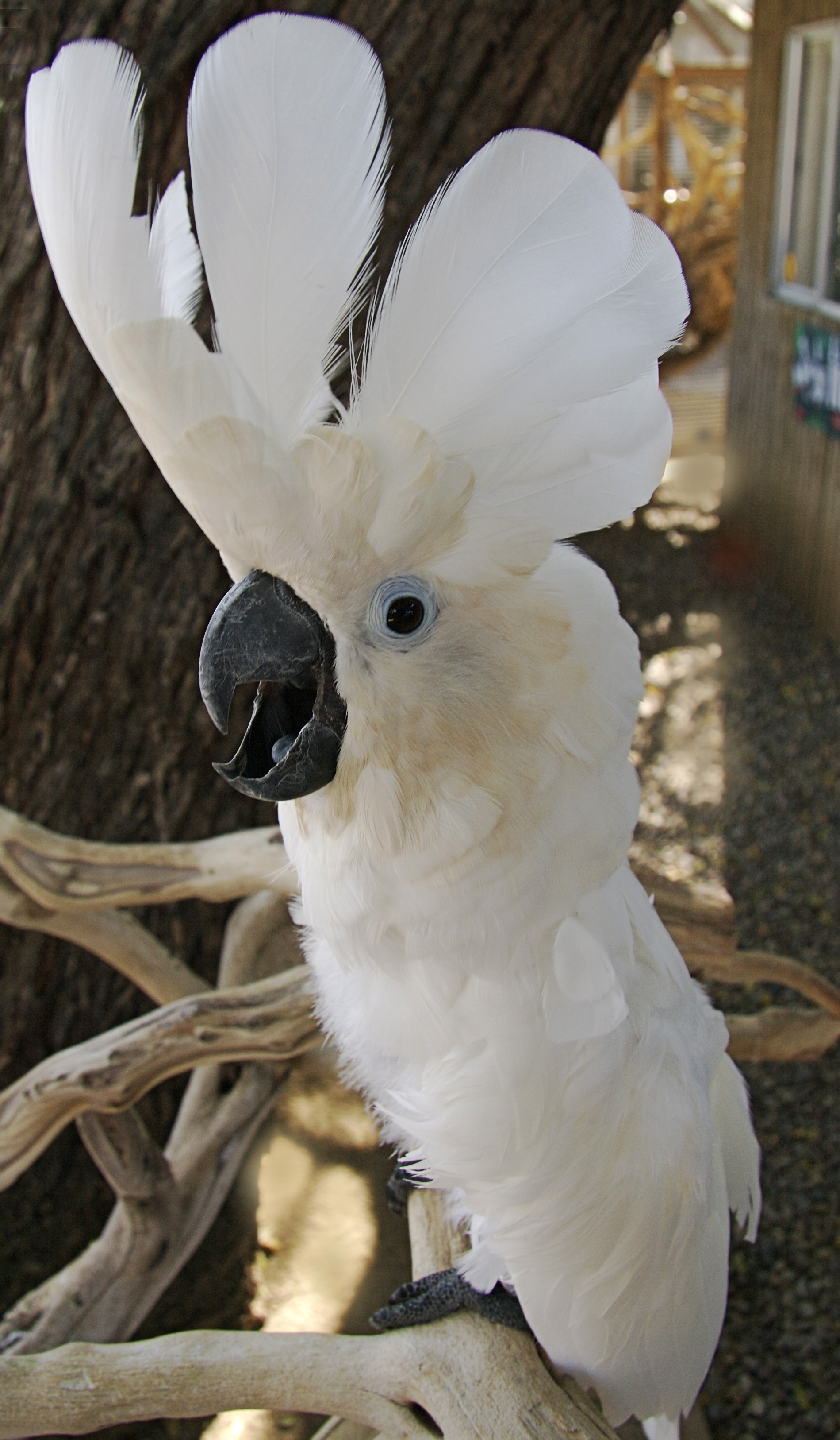 Umbrella Cockatoo (Cacatua alba) also known as the White Cockatoo, at the Free Flight Aviary, SanDiego, CA. It is displaying with its crest upright.